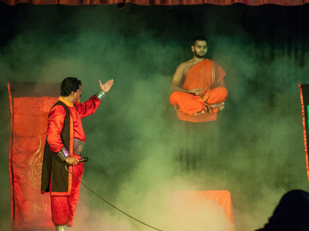 magic